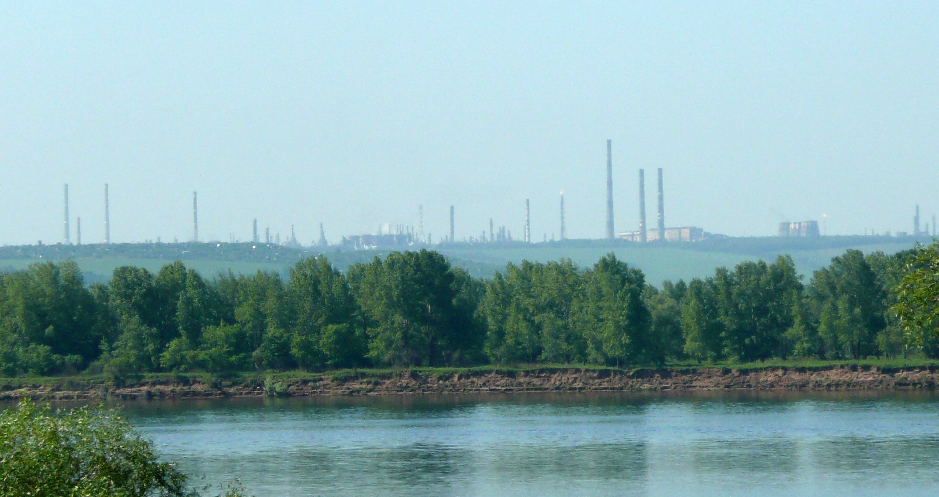 View on Nizhnekamsk from Elabuga